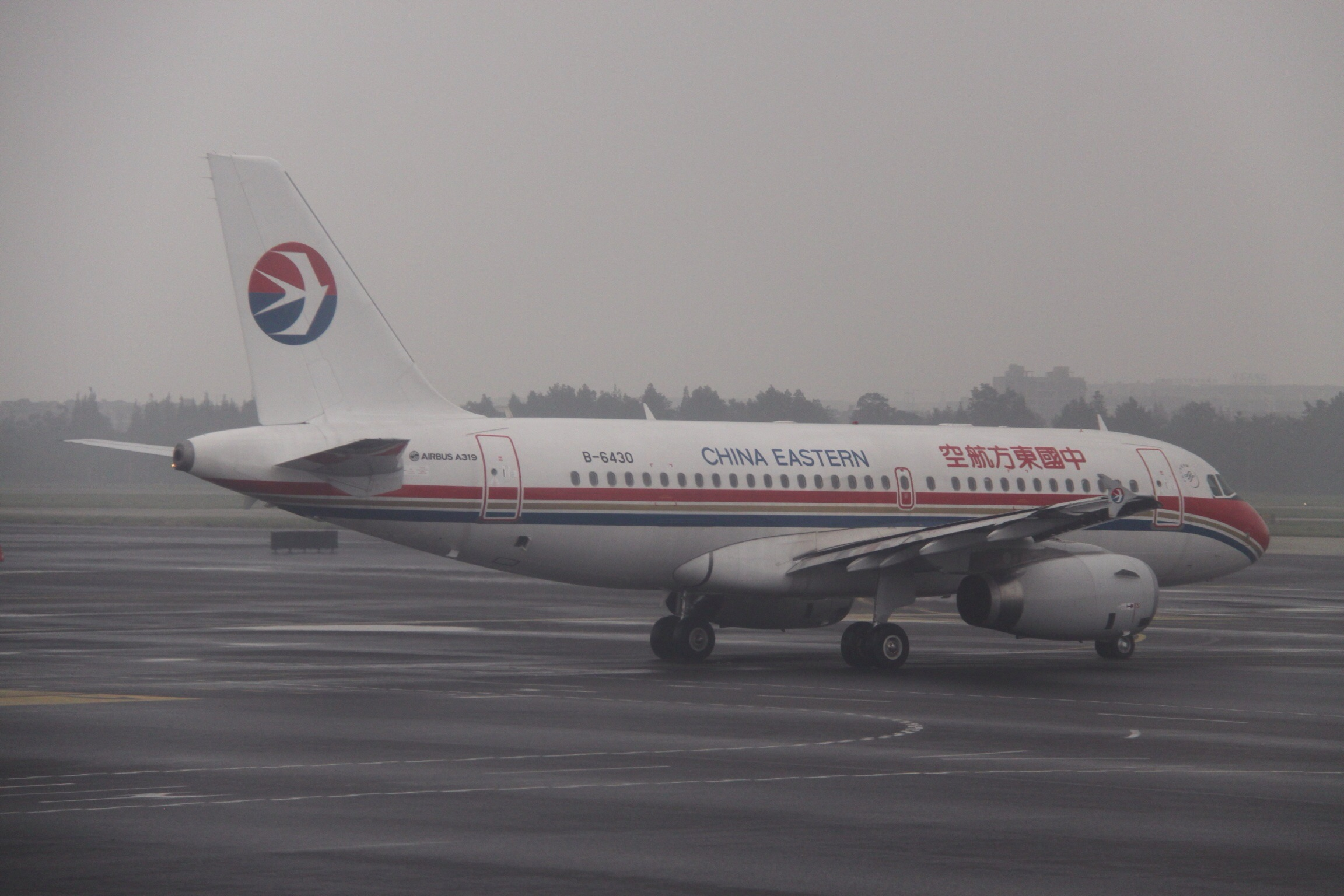 At Chengdu Shuang Liu